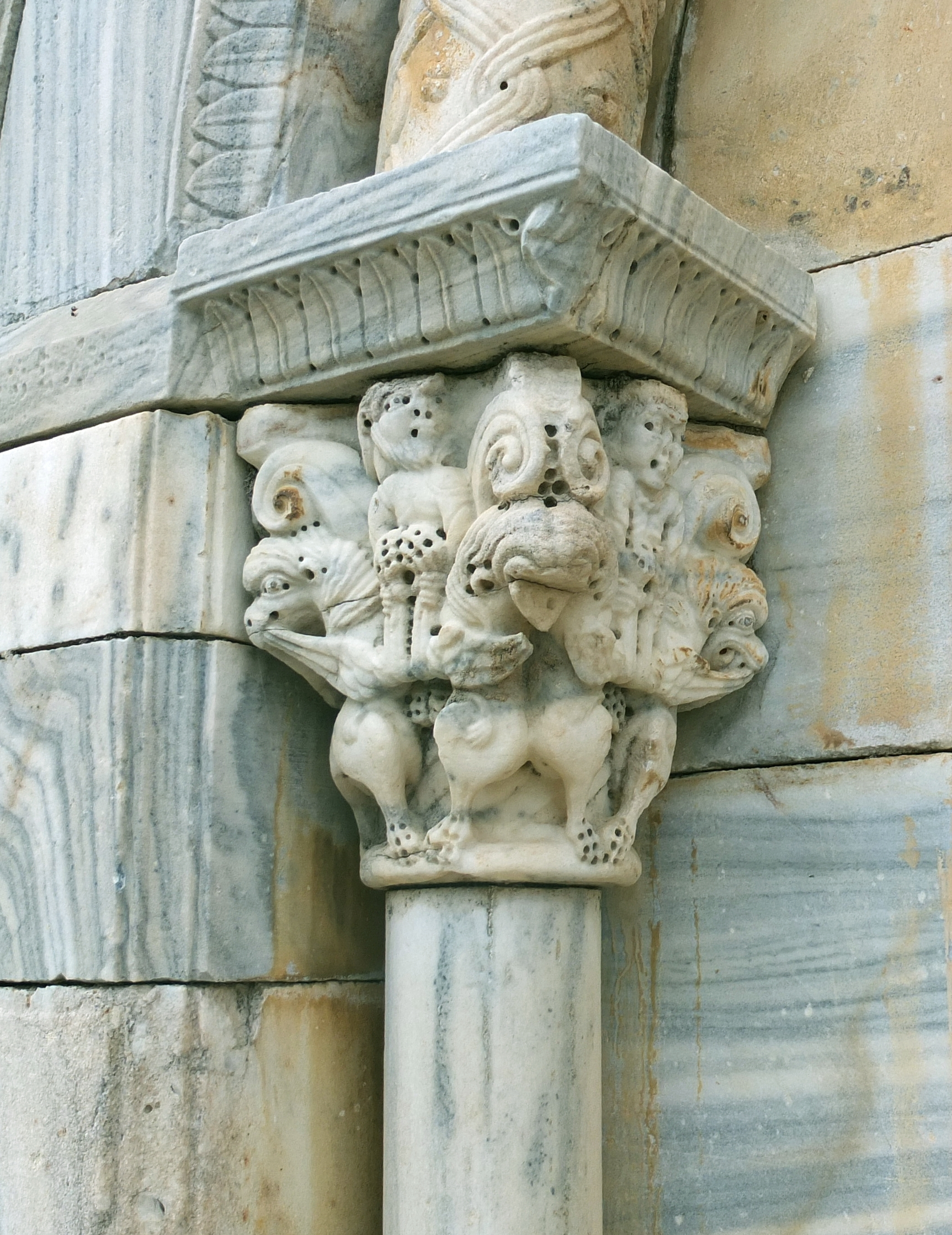 Portal of Église Sainte-Marie de Brouilla, left capital Base Mémoire: APHY06_10